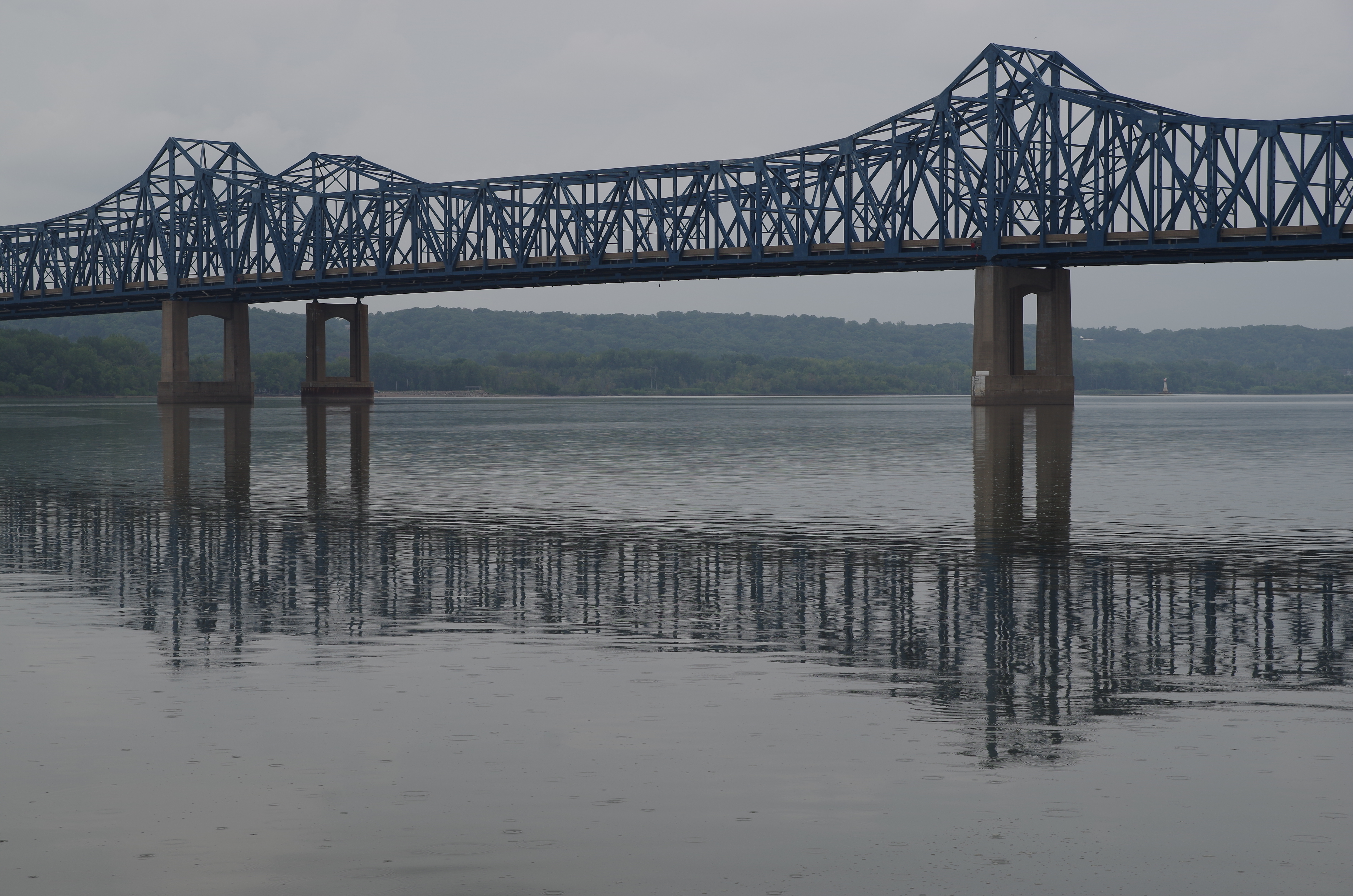 The twin steel truss bridges known as McClugage Bridge, spanning the Illinois River at Peoria. The two bridges are similar but not identical. Photographed from the west side upstream.